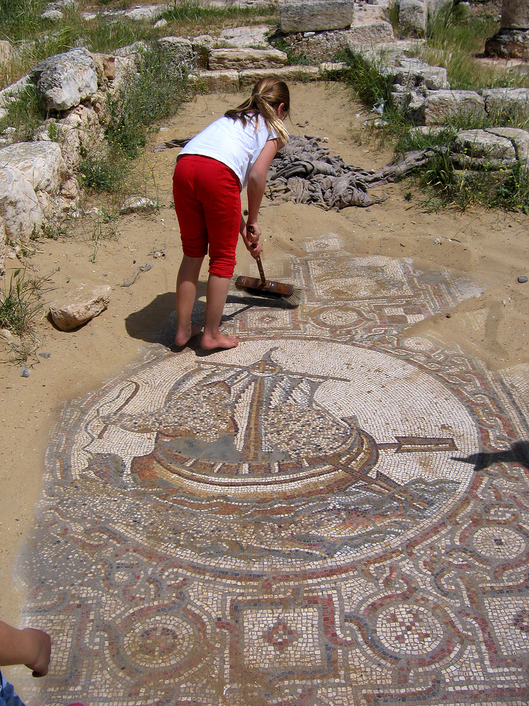 Hirbat Beit Loya, Archeological sites of Israel